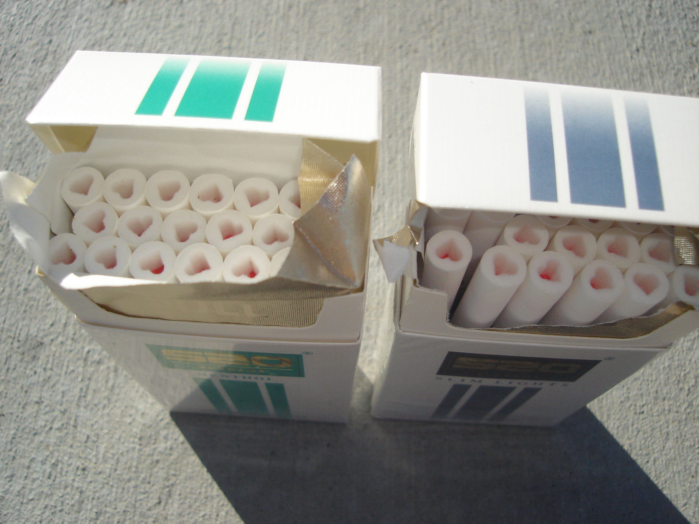 520 light cigarette packs, one menthol and one regular.